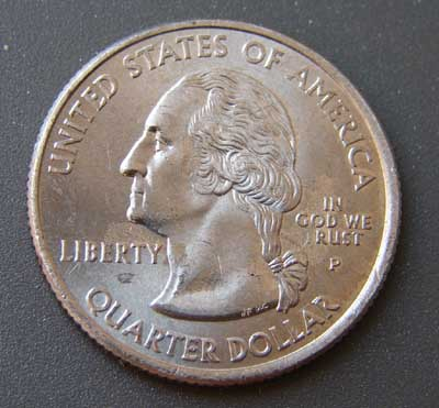 A quarter with an unusual die error.